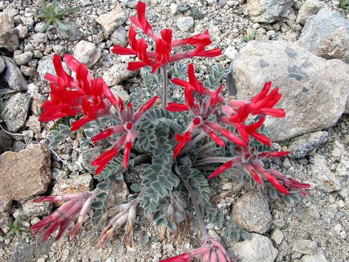 Astragalus coccineus. US Forest Service photo, no copyright.